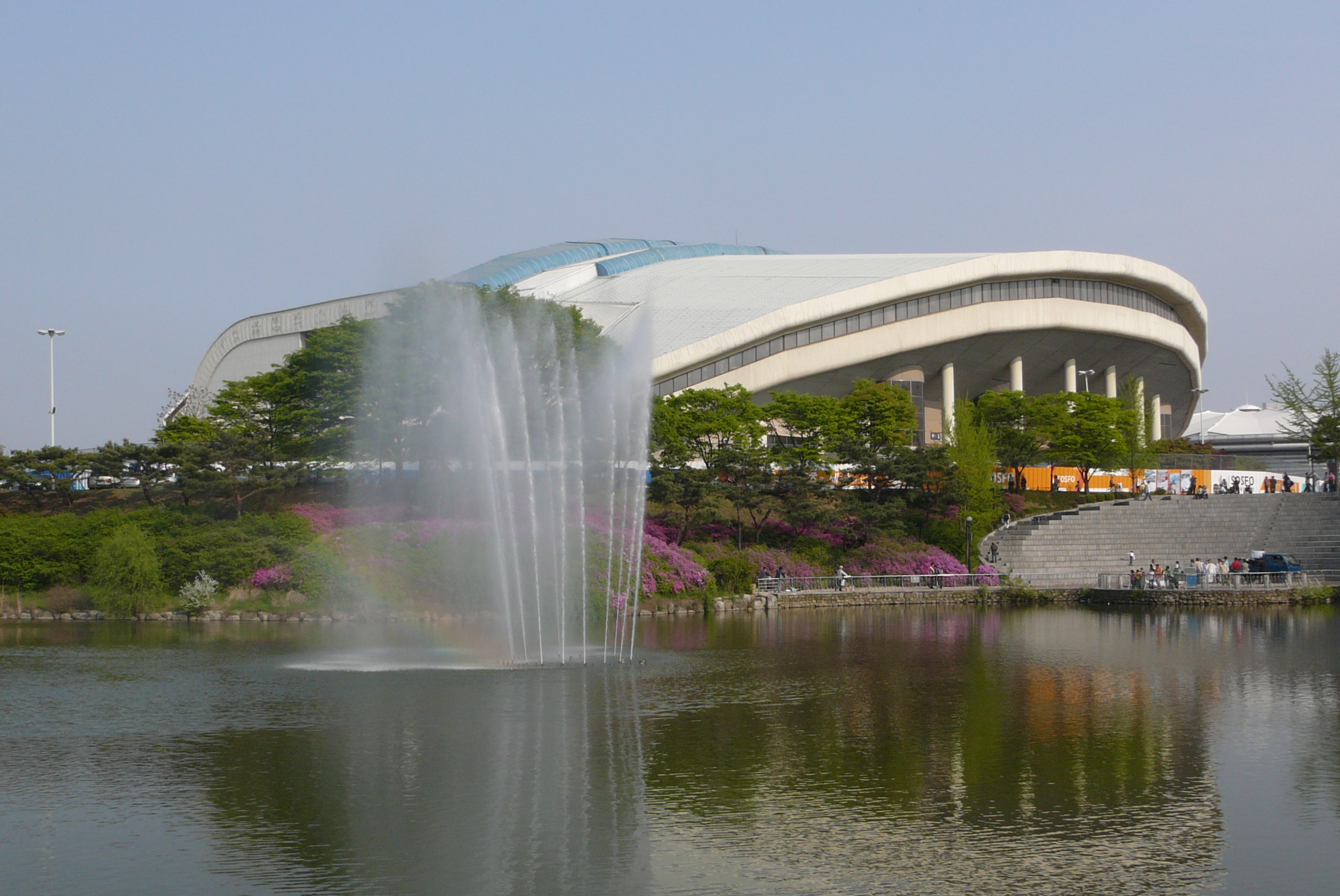 Olympic Swimming Pool in the Seoul Olympic Park